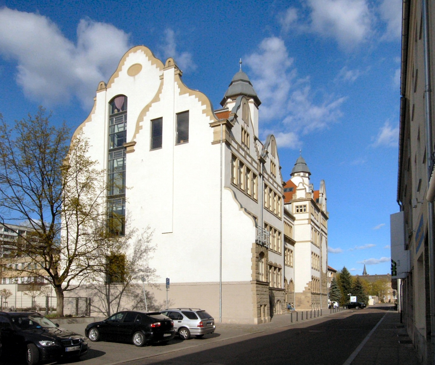 Philanthropinum Dessau